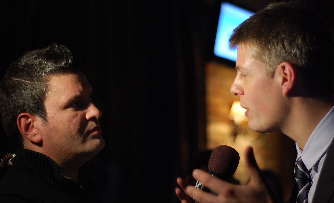 Left to right: CP24 reporter George Lagogianes and Adam Giambrone.